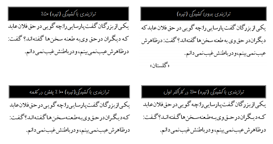 Four examples of justification of a Persian text by Zarnegar (word processor) from the product catalog.